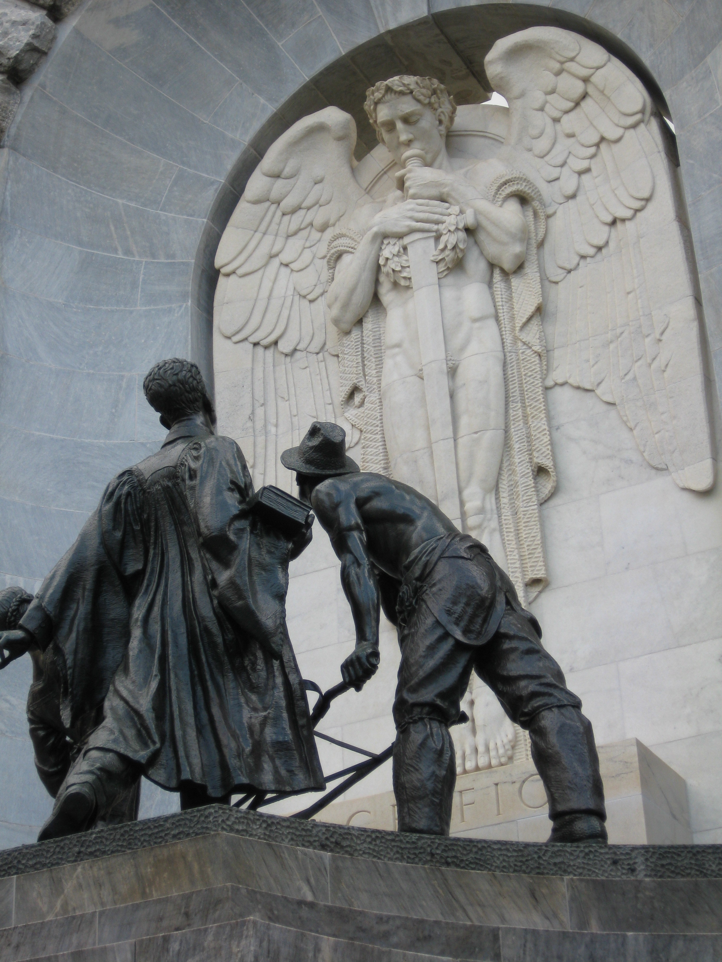 The Spirit of Duty appearing before a sculptural group representing the youth of South Australia in the form of the girl, the student and the farmer. The work, by Rayner Hoff (1894–1937), forms one side of the South Australian National War Memorial, unveiled in 1931.